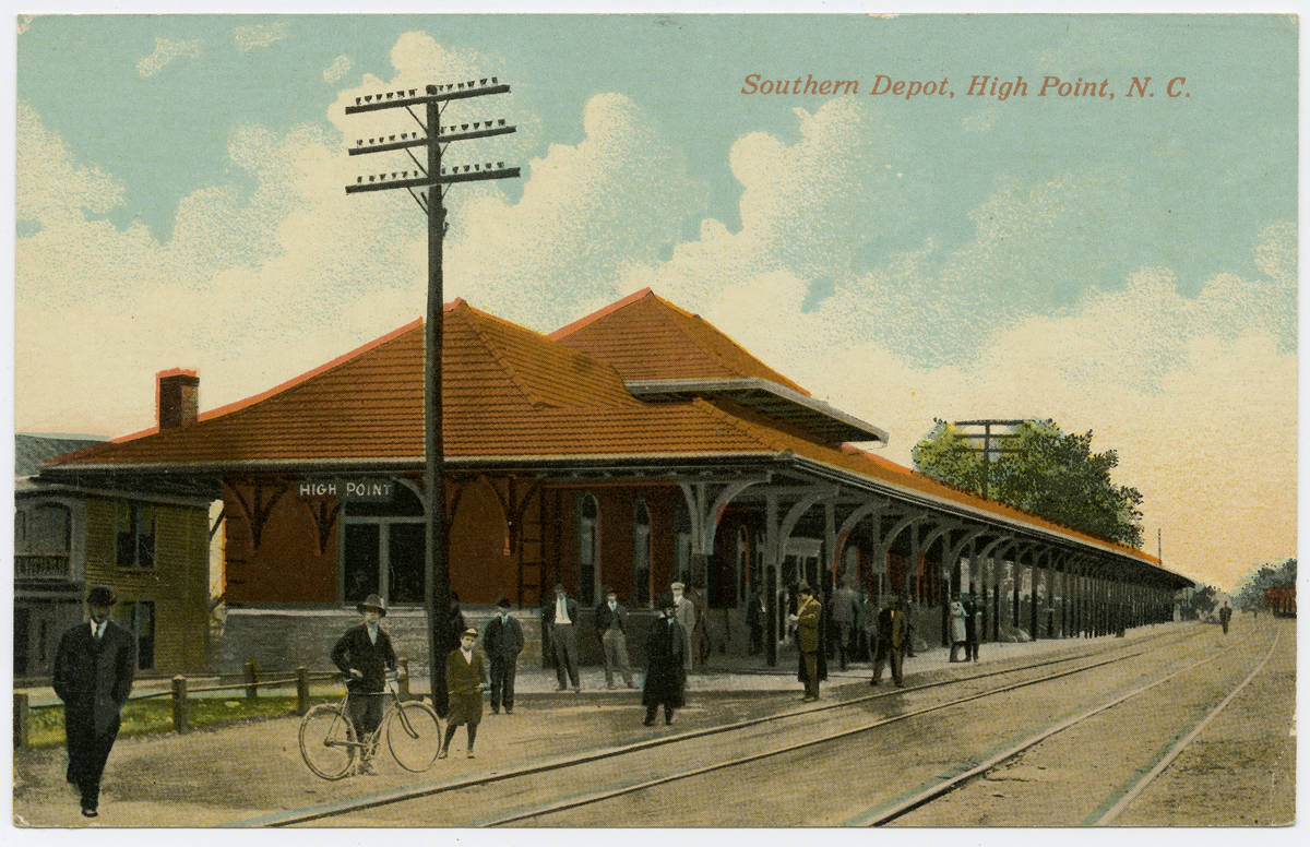 Undated postcard of the High Point Southern Depot (from circa 1905-1915).